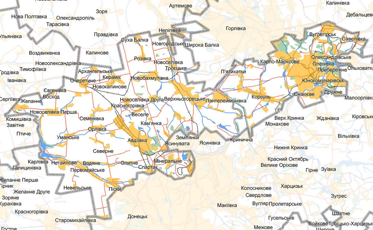 Map of Yasynuvata Raion, Donetsk Oblast, Ukraine